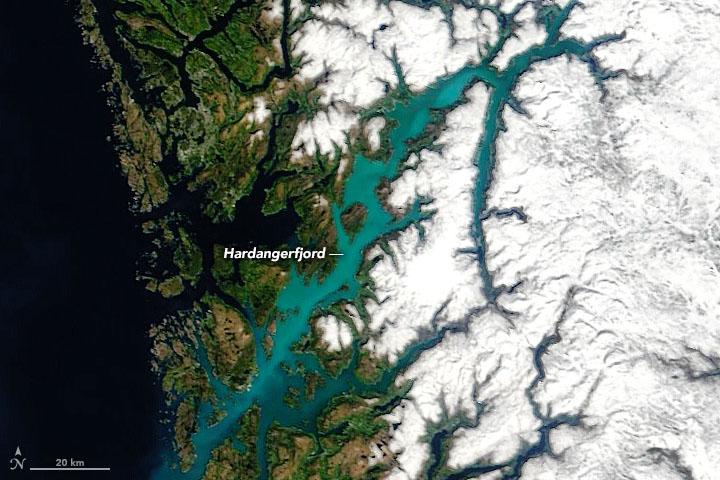 Emiliania huxleyi is about one-tenth the size of a human hair. But in high enough concentrations —a “bloom”—this single-celled phytoplankton becomes visible from space. In May 2020, a vivid bloom of E. huxleyi colored the surface waters of a fjord in southern Norway. The Moderate Resolution Imaging Spectroradiometer (MODIS) on NASA’s Terra satellite acquired this image of Hardangerfjord on May 30, 2020. Blooms can persist for several weeks, but cloud-free views of the entire fjord—Norway’s second-longest—can be hard to come by. Natural-color satellite images show a hint of color on May 25, and by June 10 vivid color was still visible between the clouds. E. huxleyi is the most abundant species of coccolithophore, a type of phytoplankton that builds itself a shell of calcium carbonate disks, or “coccoliths.” The shells are so reflective that they can make otherwise dark blue water appear milky blue-green. The photo below, by Irene Huse of Norway’s Institute of Marine Research, shows the ship-based view of water in Hardangerfjord that was turned turquoise by E. huxleyi. [see link] Spring and early summer are common times to see phytoplankton blooms in the North and Norwegian seas. In May and June 2019, a stunning bloom, likely composed primarily of E. huxleyi, showed up along the Norwegian coast and filled Sognefjord—the country’s longest and deepest fjord. Coccolithophores tend to be good competitors for nutrients, so they can grow well even under low-nutrient conditions that limit other phytoplankton. But other phytoplankton turn up in this region as well, and not all are as harmless as E. huxleyi. In 2019, a bloom of Chrysochromulina leadbeateri in the waters off northern Norway suffocated millions of farmed salmon. NASA Earth Observatory image by Joshua Stevens, using MODIS data from NASA EOSDIS/LANCE and GIBS/Worldview. Story by Kathryn Hansen.